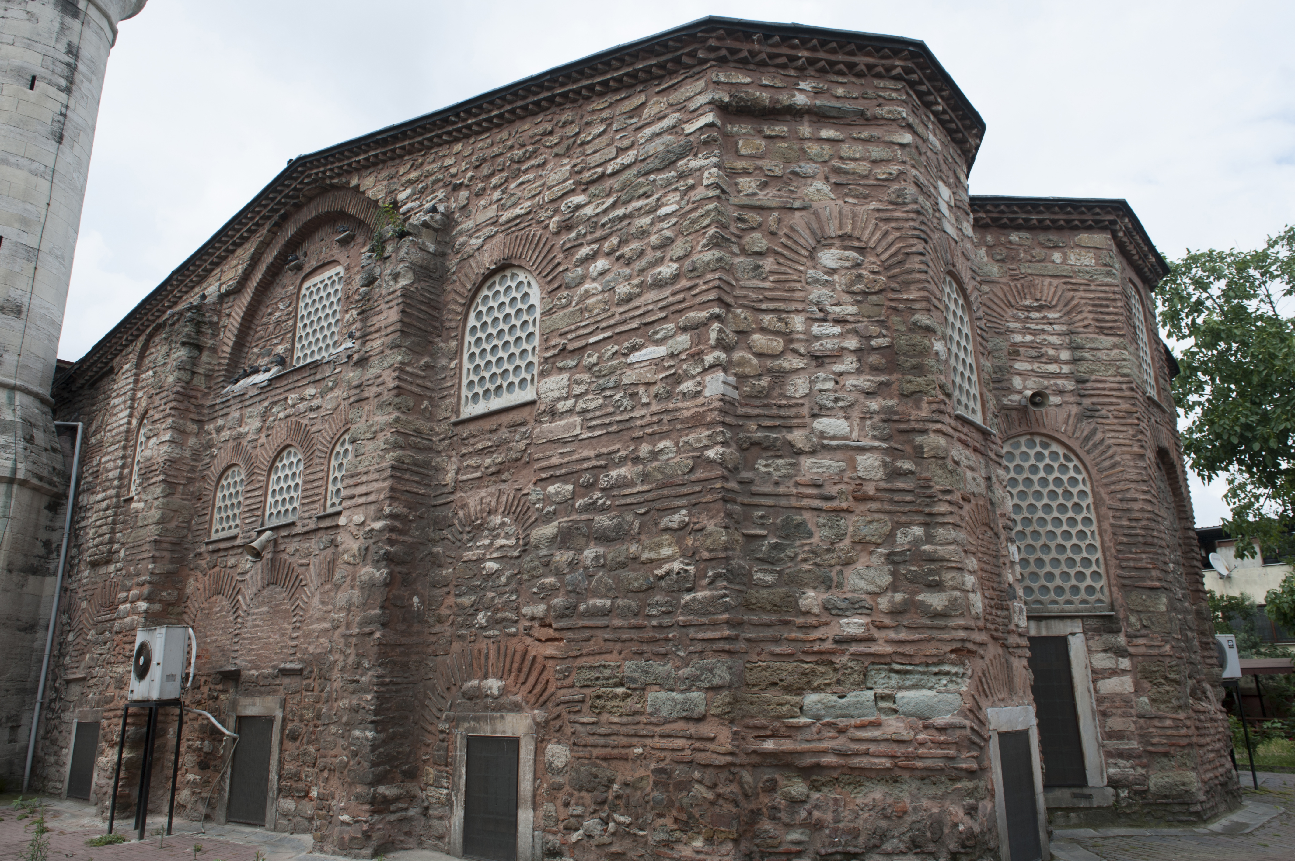 One can best compare this with